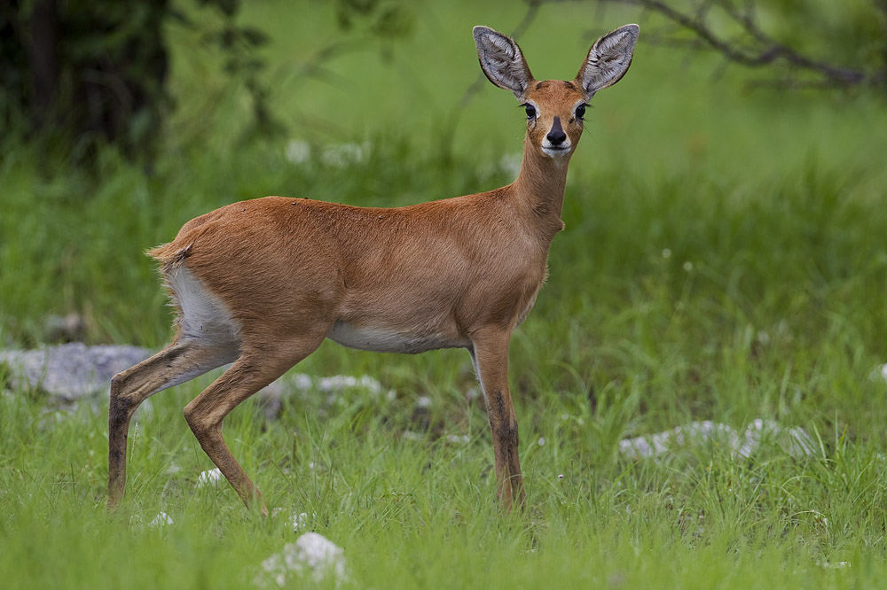 Female Steenbok, Etosha National Park, Namibia